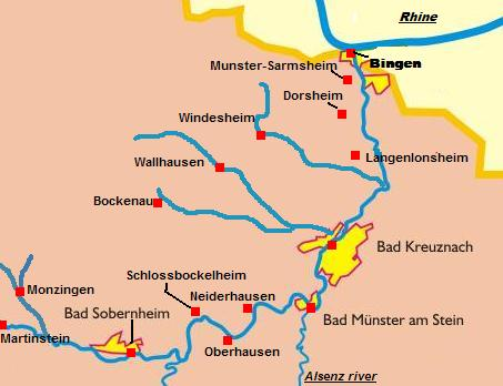 Modification of Commons image File:Karte Nahe Einzugsgebiet.png to highlight the German wine regions of the Nahe.